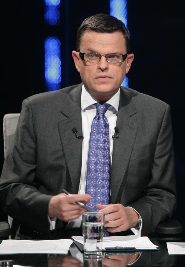 Andrzej Morozowski, Polish journalist, in the studio of the "Teraz my" programme (TVN television) which he co-hosts